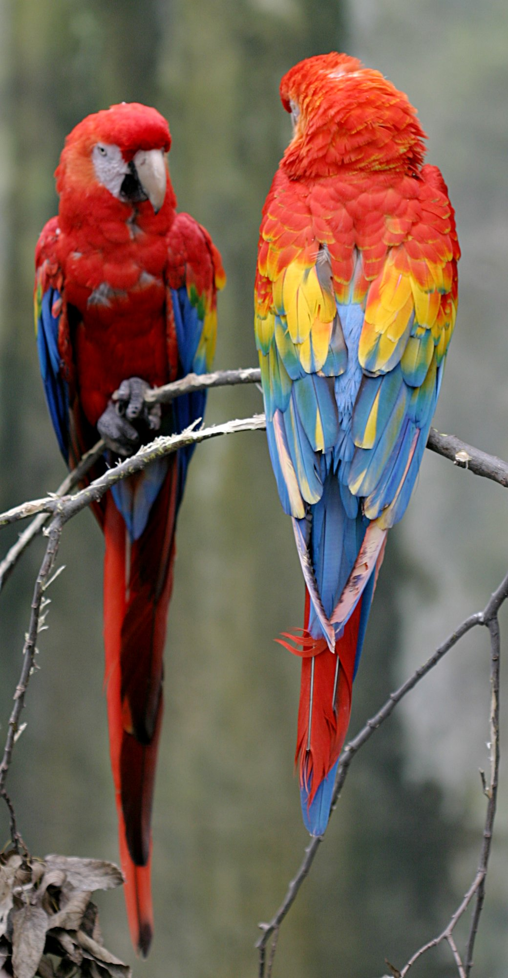 Two Scarlet Macaws at the Henry Doorly Zoo in Omaha, Nebraska.